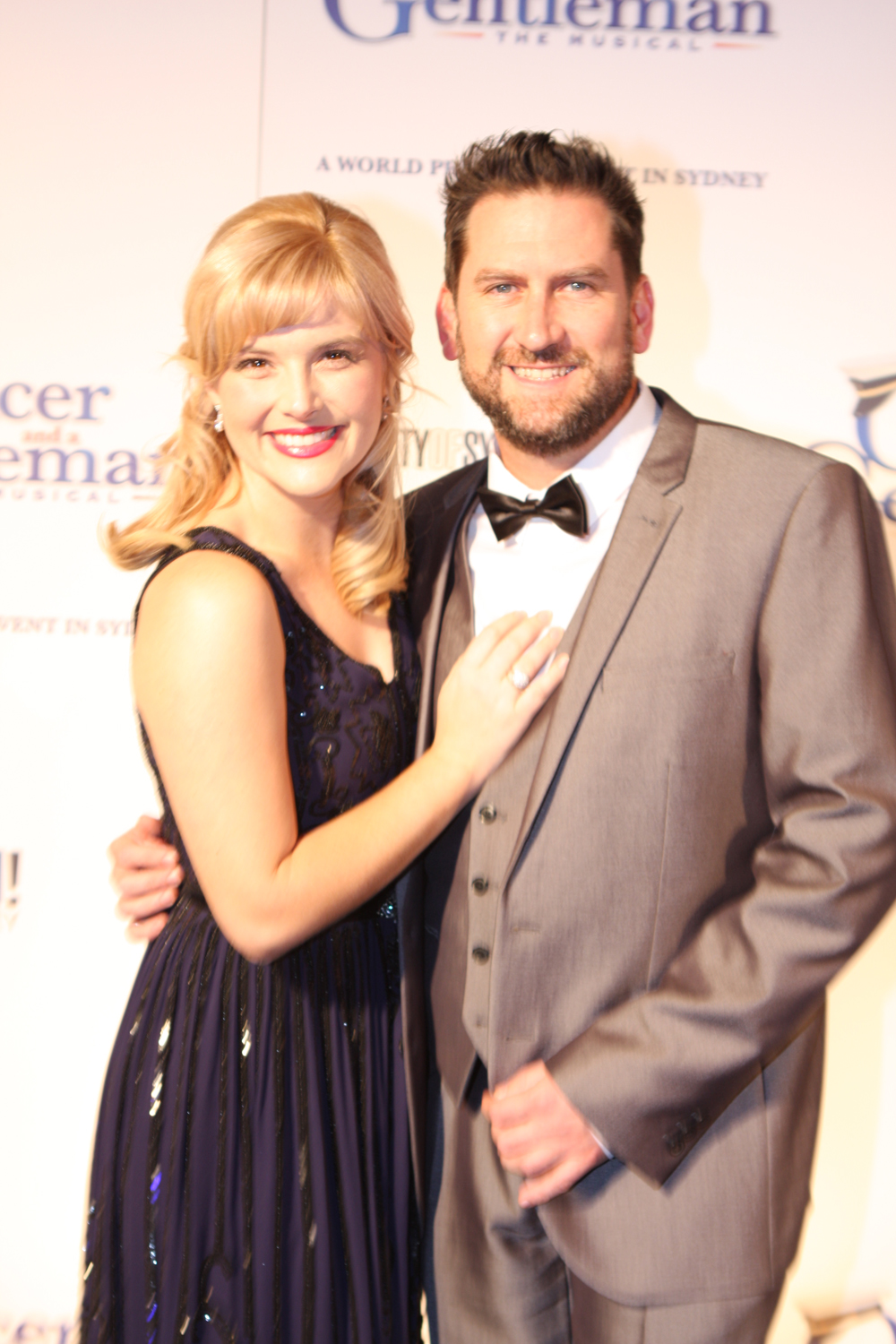 An Officer and a Gentleman The Musical To Play Sydney Lyric Theatre, The Star